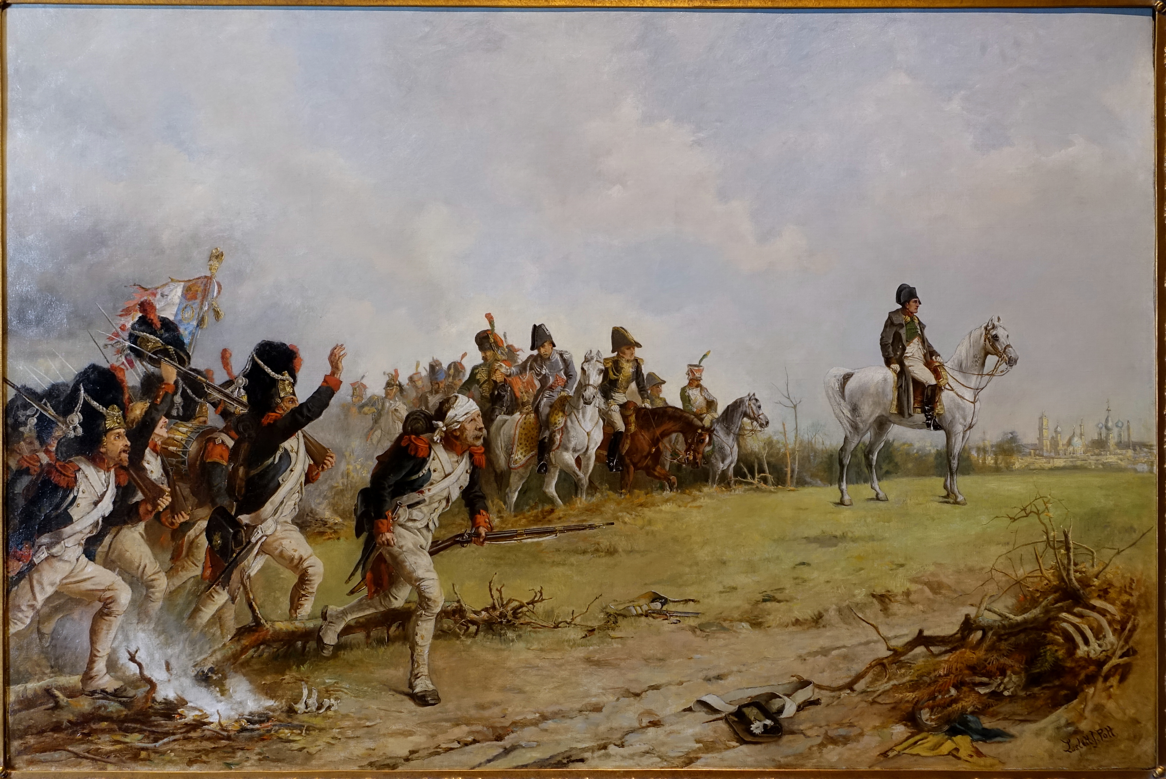 Exhibit in the Montreal Museum of Fine Arts - Montreal, Quebec, Canada.